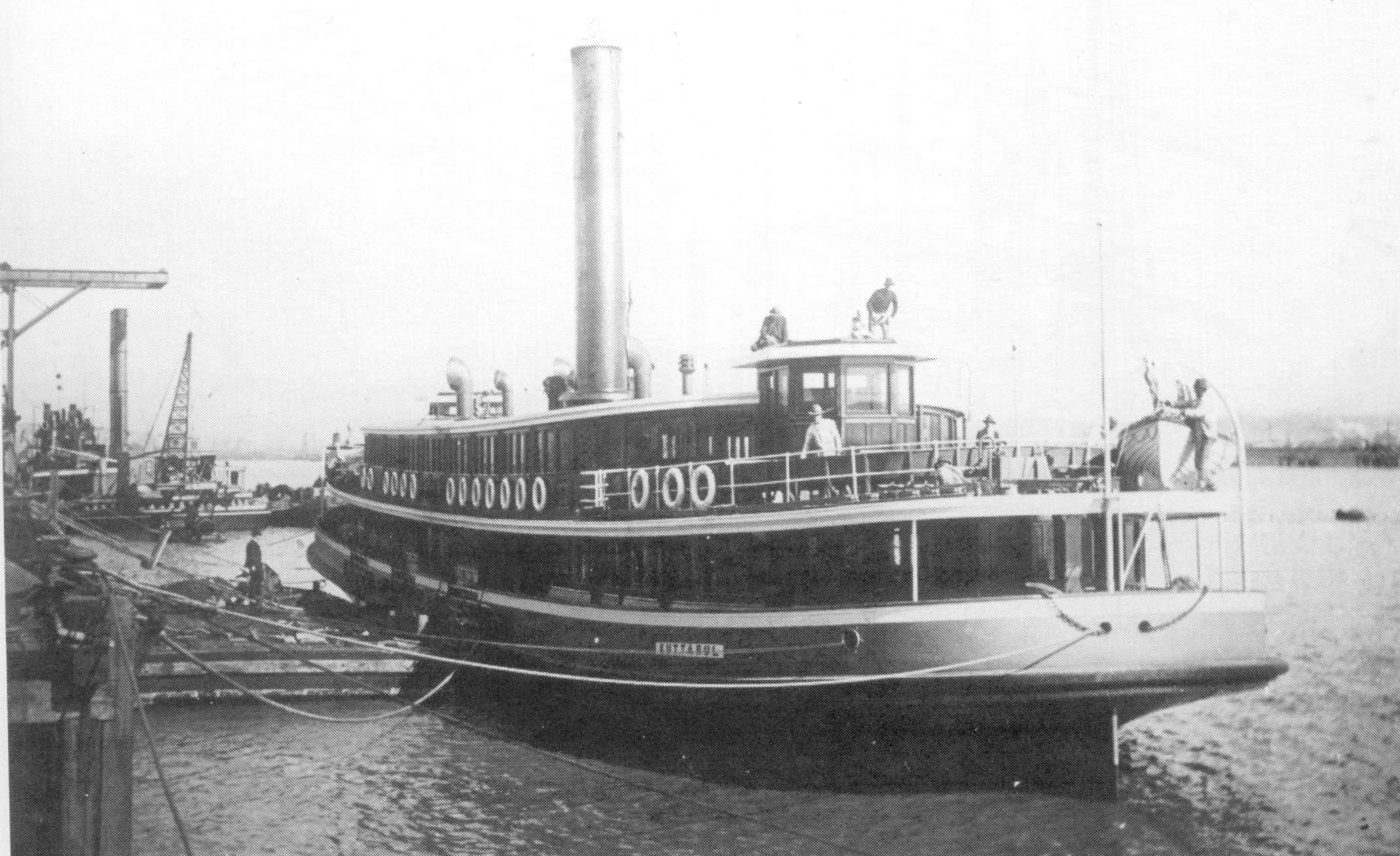 Sydney ferry Kuttabul being fitted out 1922 This image forms part of the digitised photographs of the Ross and Pat Craig Collection. Ross Craig (1926-2012) was a local historian born in Stockton and dedicated much of his life promoting and conserving the history of Stockton, NSW. He possessed a wealth of knowledge about the suburb and was a founding member of the Stockton Historical Society and co-editor of its magazine. Pat Craig supported her husband’s passion for history, and together they made a great contribution to the Stockton and Newcastle communities. We thank the Craig Family and Stockton Historical Society who have kindly given Cultural Collections at the University of Newcastle, NSW, Australia, access to the collection and allowedus to publish the images. Thanks also to Vera Deacon for her liaison in attaining this important collection.Please contact Cultural Collections at the University of Newcastle, NSW, Australia, if you are the subject of the image, or know the subject of the image, and have cultural or other reservations about the image being displayed on this website and would like to discuss this with us.Some of the images were scanned from original photographs in the collection held at Cultural Collections, other images were already digitised with no provenance recorded.You are welcome to freely use the images for study and personal research purposes. Please acknowledge as“Courtesy of the Ross and Pat Craig Collection, University of Newcastle (Australia)" For commercial requests please consider making a donation to the Vera Deacon Regional History Fund.These images are provided free of charge to the global community thanks to the generosity of the Vera Deacon Regional History Fund. If you wish to donate to the Vera Deacon Fund please download a form here: you have any further information on the photographs, please leave a comment.